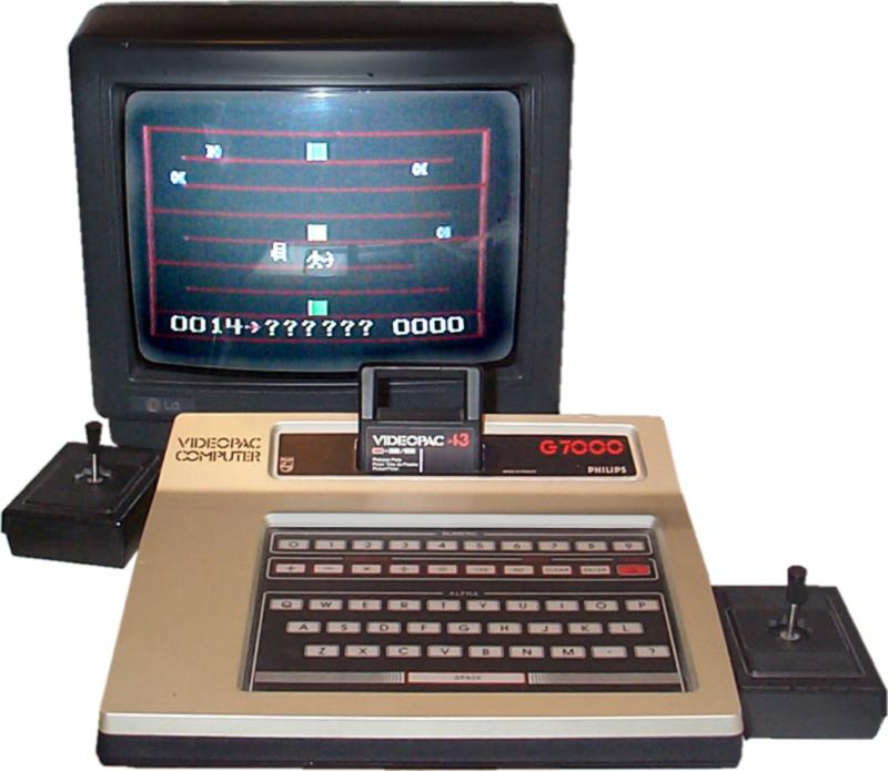 Philips Videopac G7000, the European version of the Magnavox Odyssey2. The game on-screen is Pickaxe Pete.